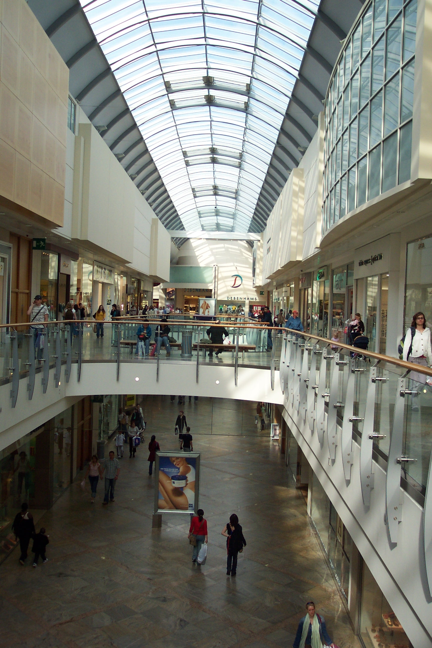 The internal mall of The Oracle shopping centre in Reading, England. This photograph shows the original state of the upper mall, before the addition of further decking to allow the creation of a Starbuck's kiosk. For more information, see Wikipedia article The Oracle, Reading.